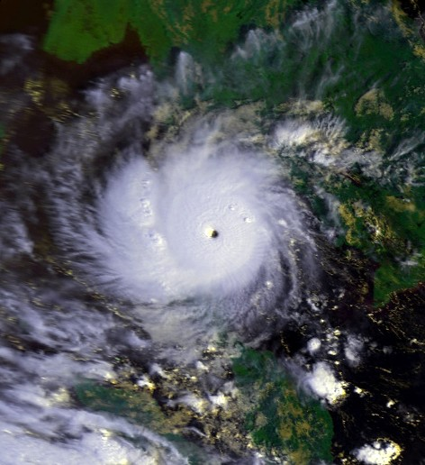 Typhoon nearing landfall on the Malay Peninsula. This image was produced from data from NOAA-10, provided by NOAA.